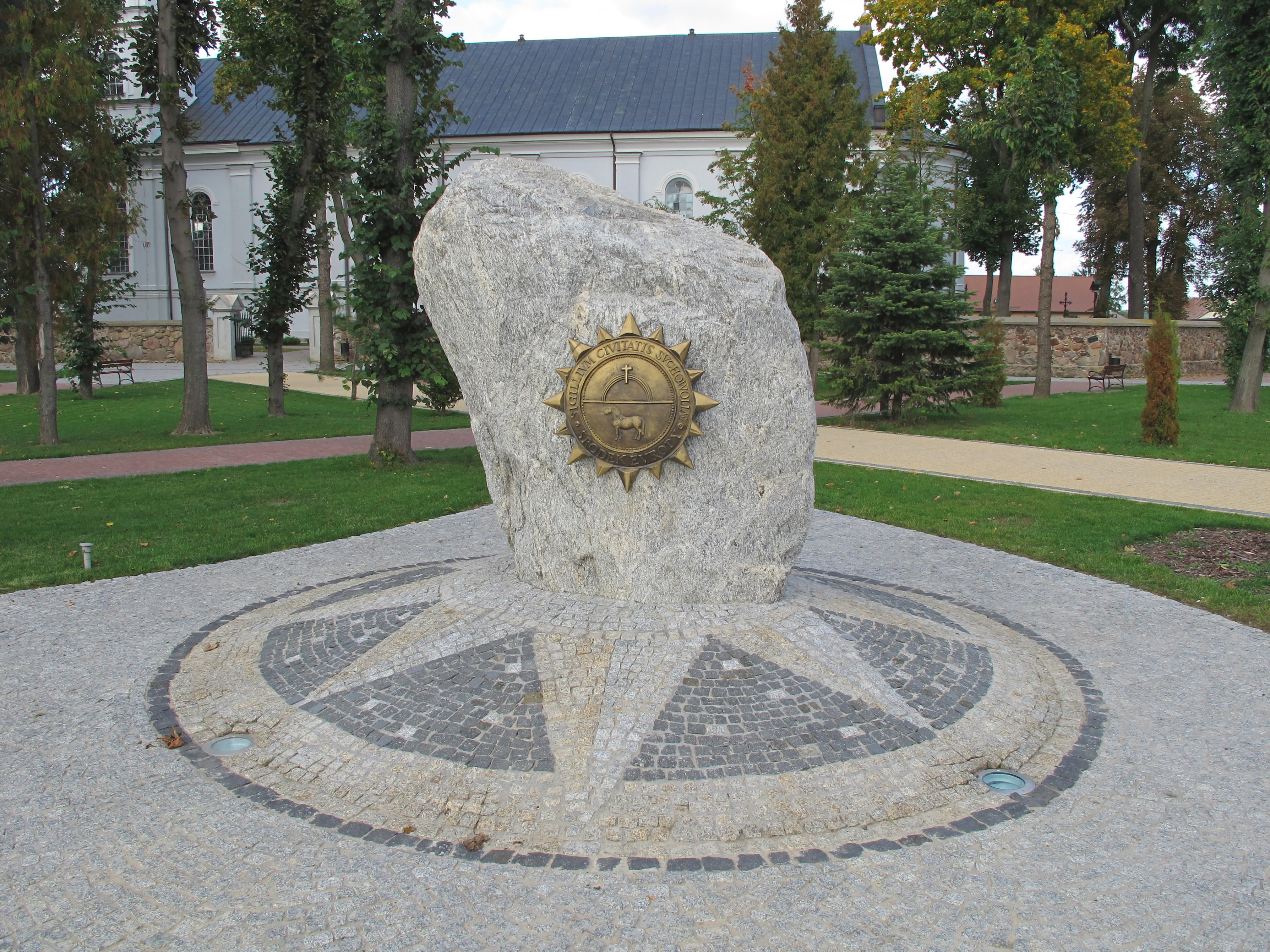 Boulder symbolizing Suchowola geographic centre of Europe being located at town park by Kościuszki sq. street in Suchowola, gmina Suchowola, podlaskie, Poland